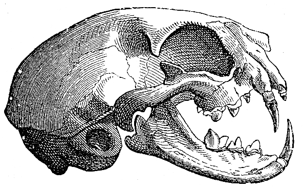 Skull of a cat.